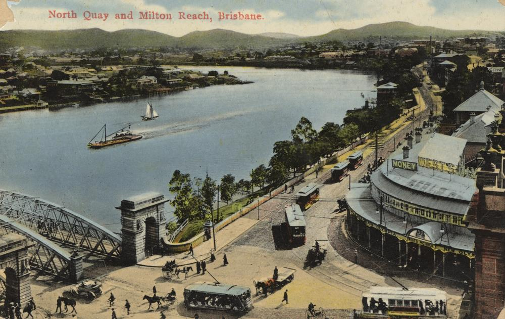 North Quay and Milton Reach of the Brisbane River Part of the White Series of postcards. The entrance to the Victoria Bridge is visible.